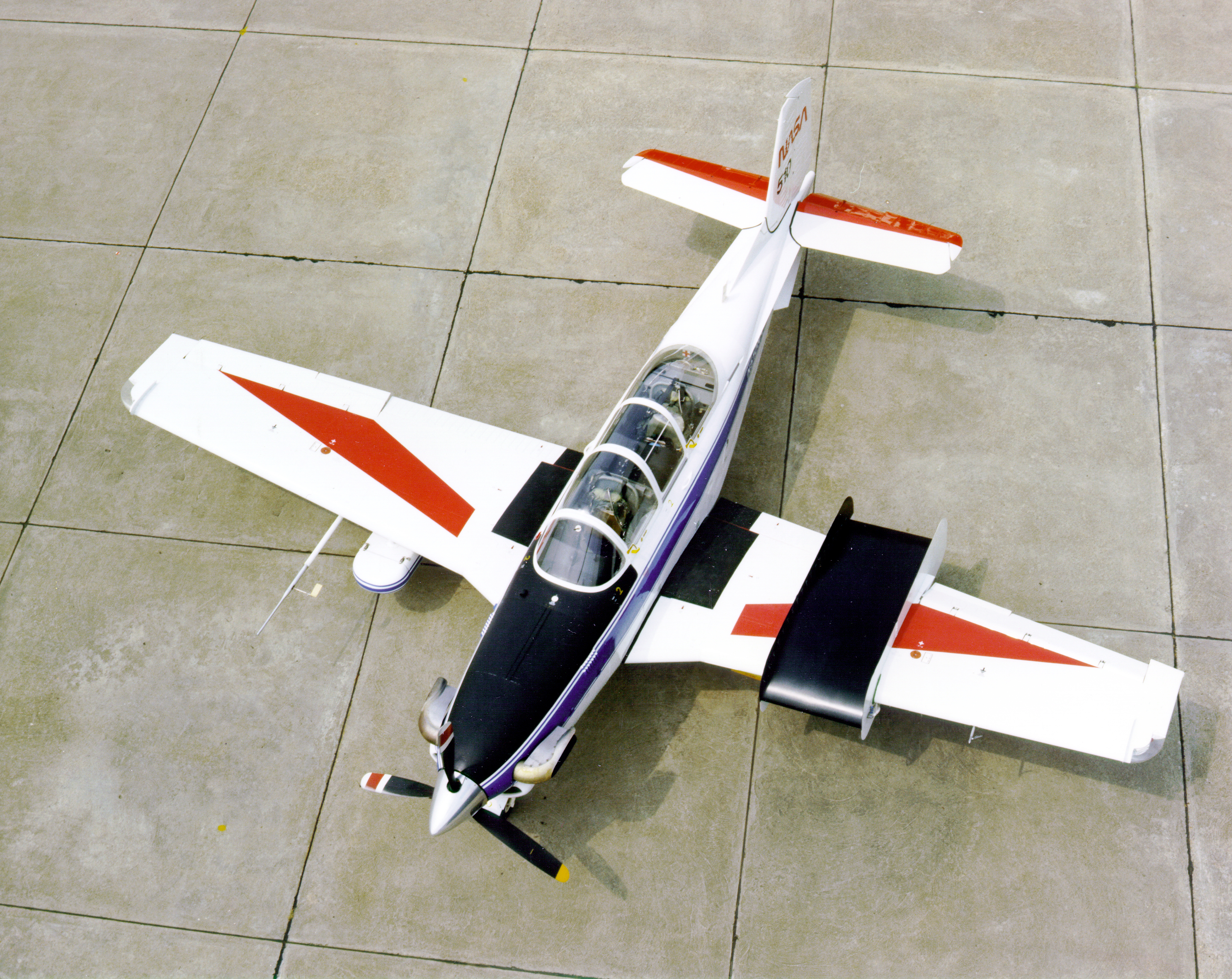 While most often flown as a photo chase aircraft, the Beech T-34C Turbo Mentor has performed research itself, notably with a laminar flow gloved wing. The aircraft is equipped with a luggage pod under its starboard wing. In 1989, the T-34 was used to sample Space Shuttle exhaust during mission STS-34.